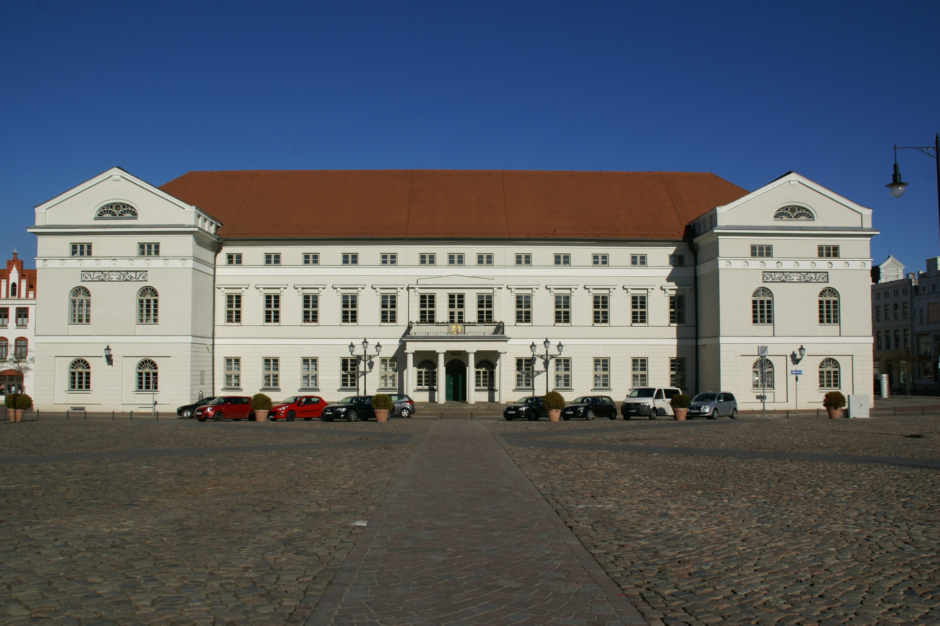 town Hall at the market sqaure of Wismar, Germany